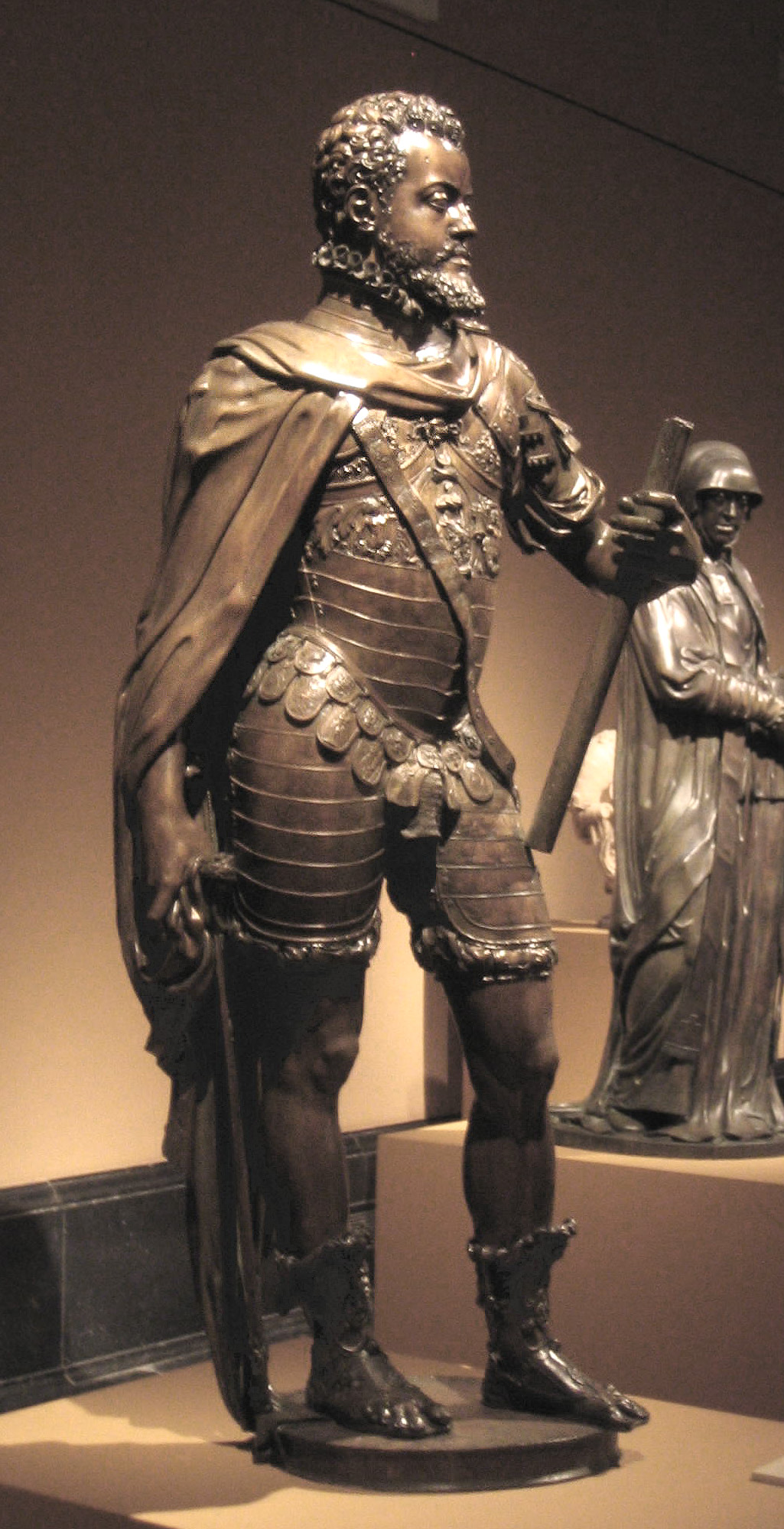 Statue of king Philip II of Spain (1527–1598).